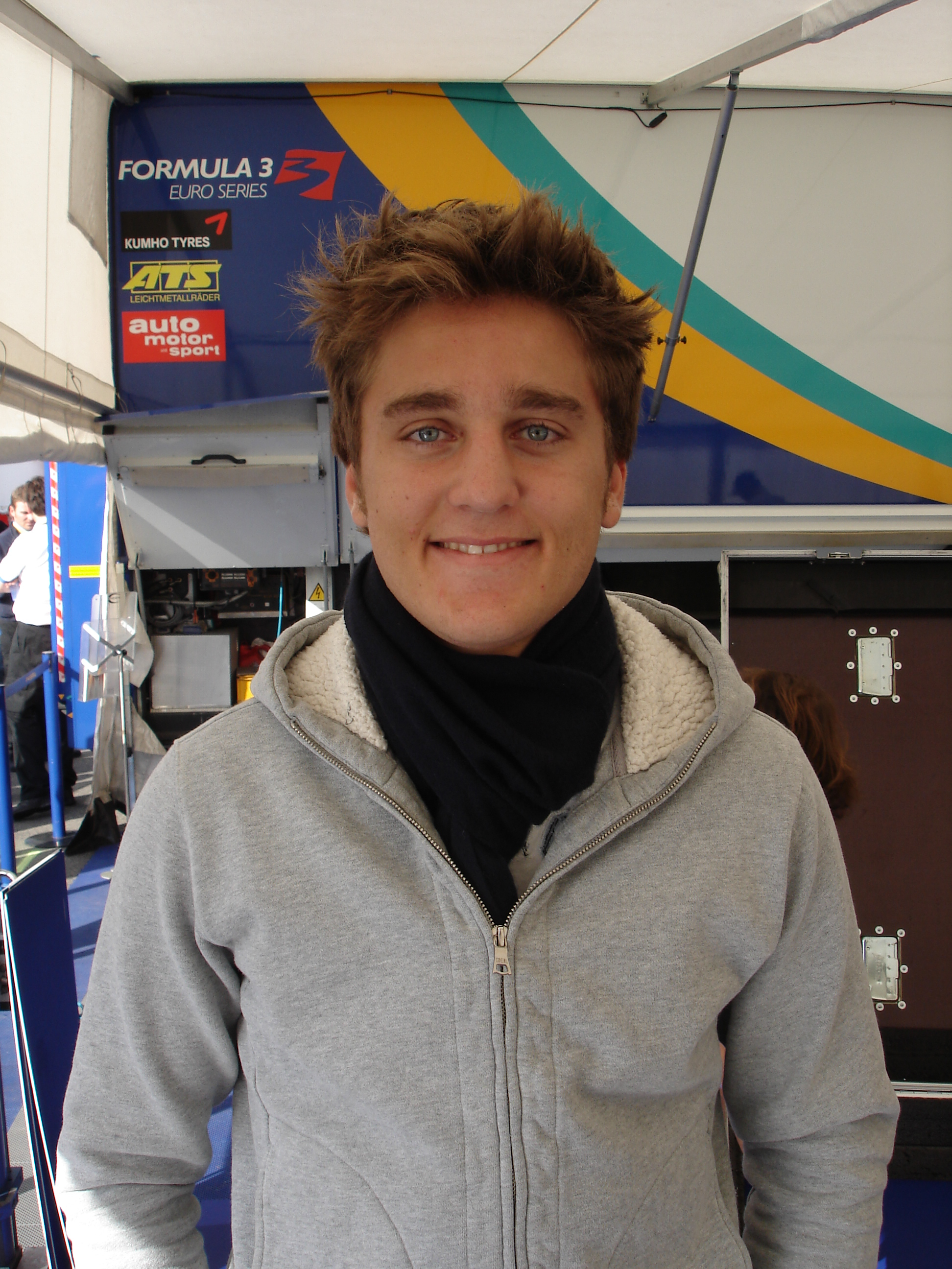 Stefano Coletti: the photo was taken during 2009's second DTM race weekend at Hockenheim